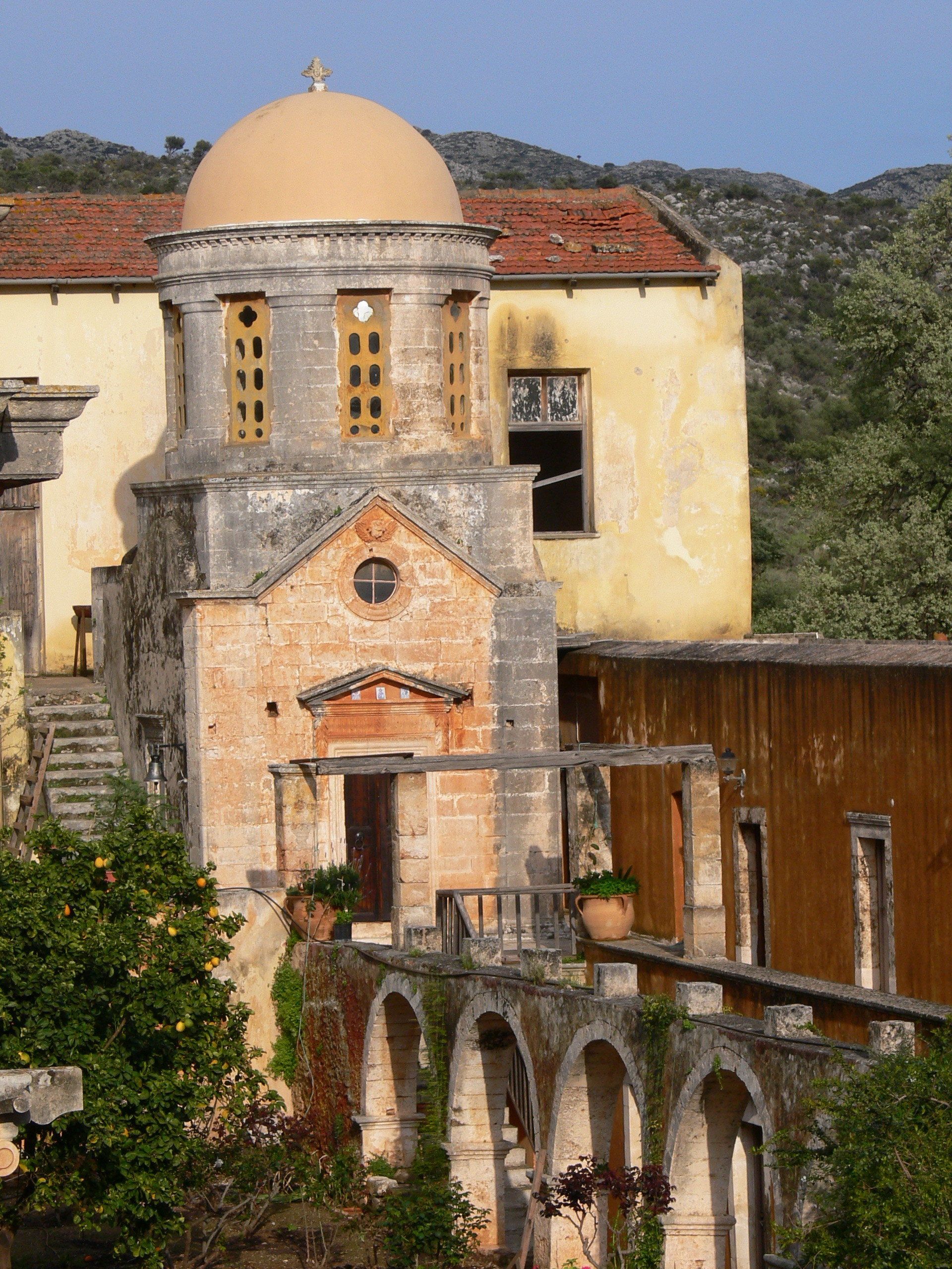 Agia Triada monastery, Akrotiri ( Crete ). Chapel in the courtyard of the monastery.